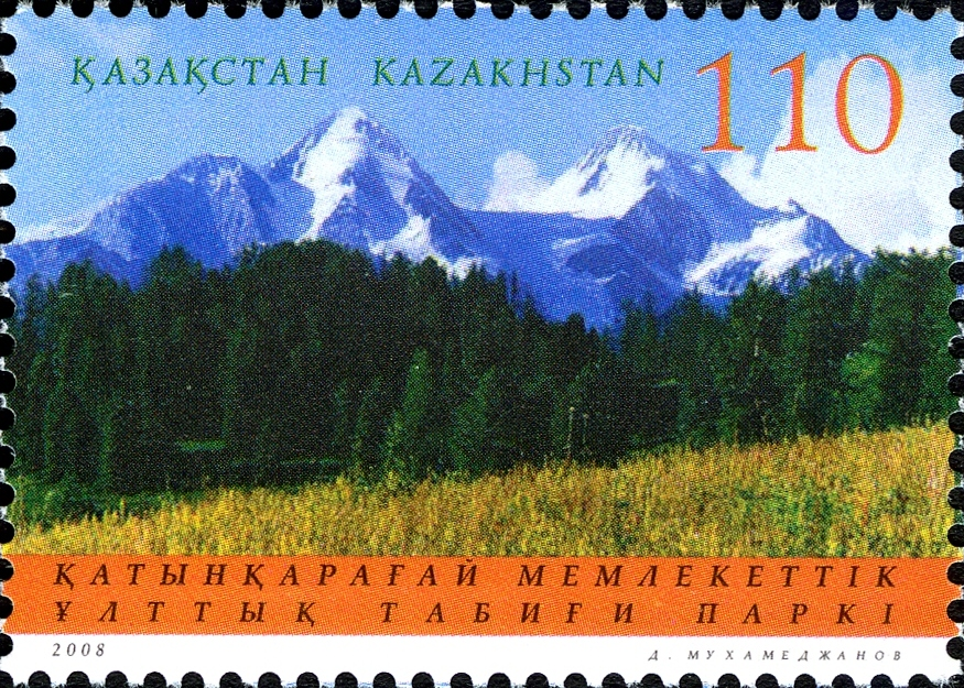 Stamps of Kazakhstan, 2012